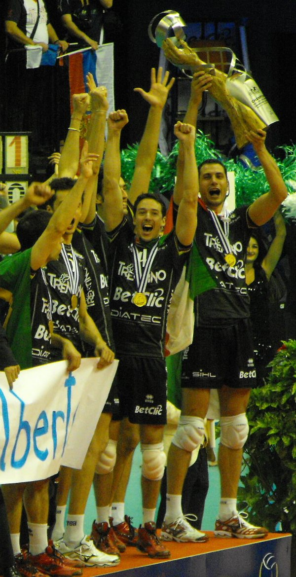 Award Cerimony of the CEV Dolomiti Champions League 2011